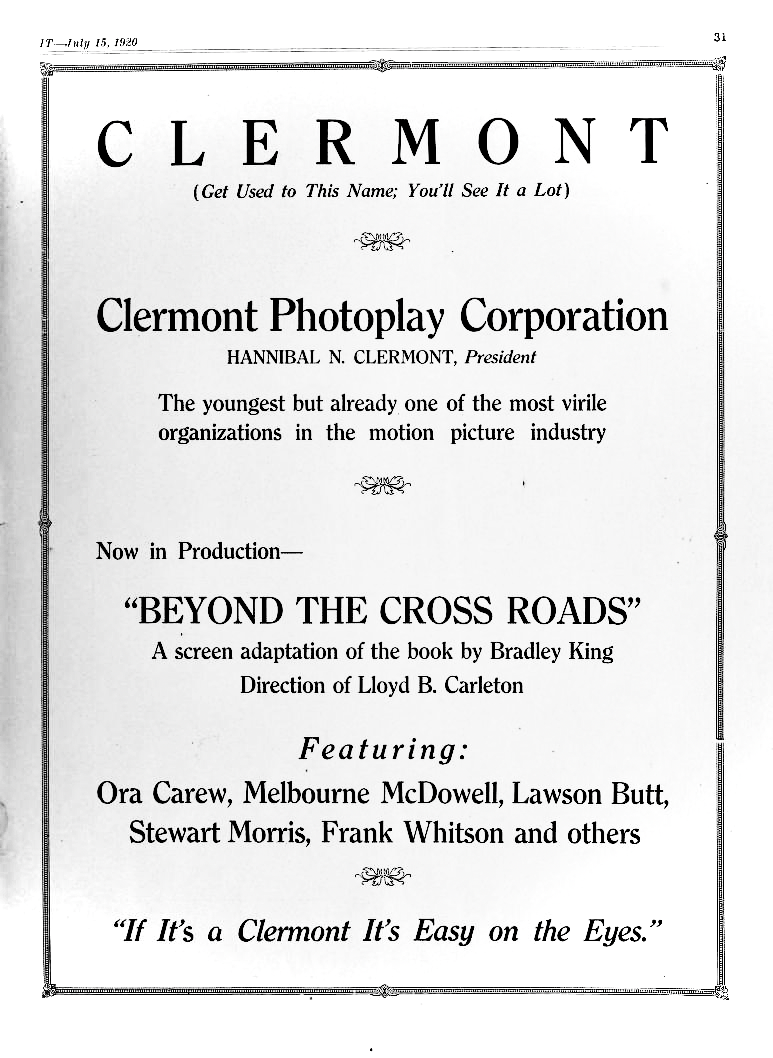 Beyond the Cross Roads d in IT magazine